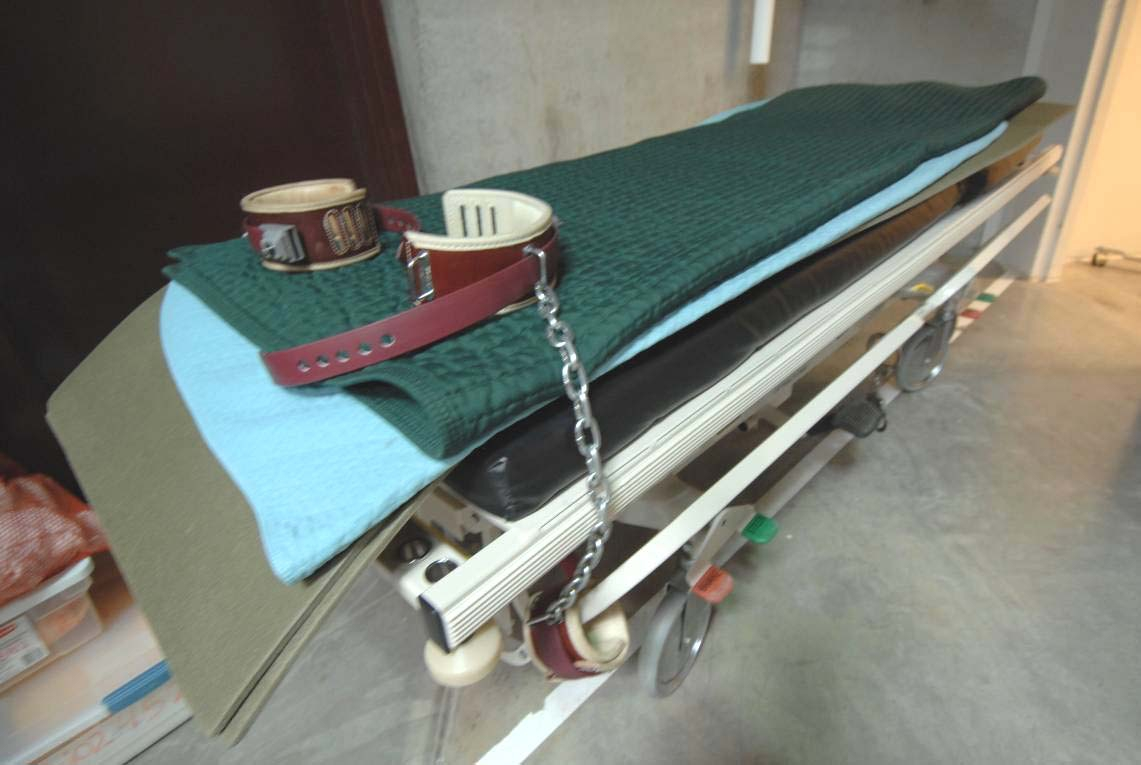 Guantanamo Gurney_Used_for_Enteral_Feeding. Guantanamo captives were subjected to involuntary force-feeding when they had skipped nine consecutive meals.